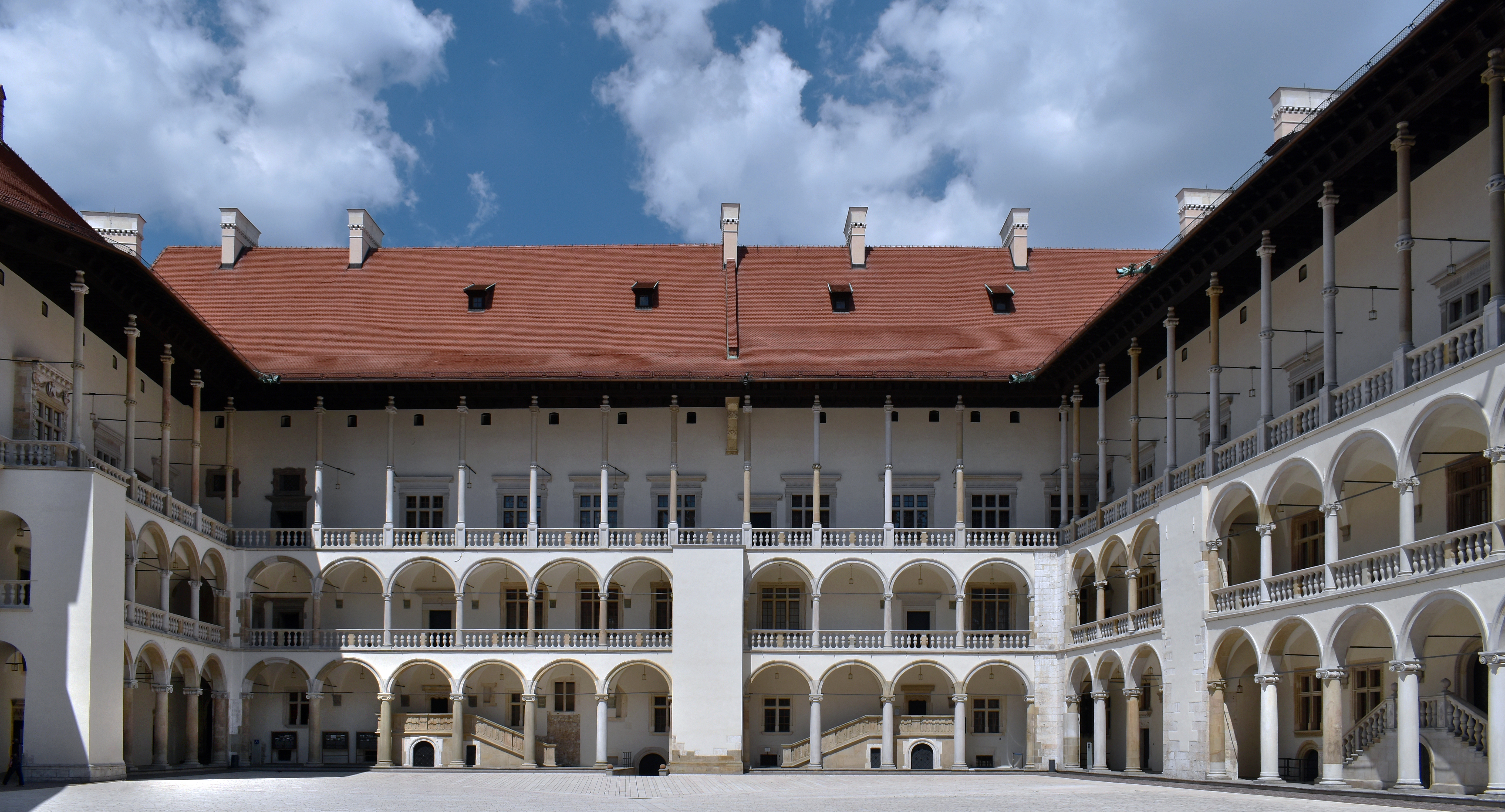 Wawel Royal Castle courtyard (N), 4 Wawel, Old Town, Krakow, Poland